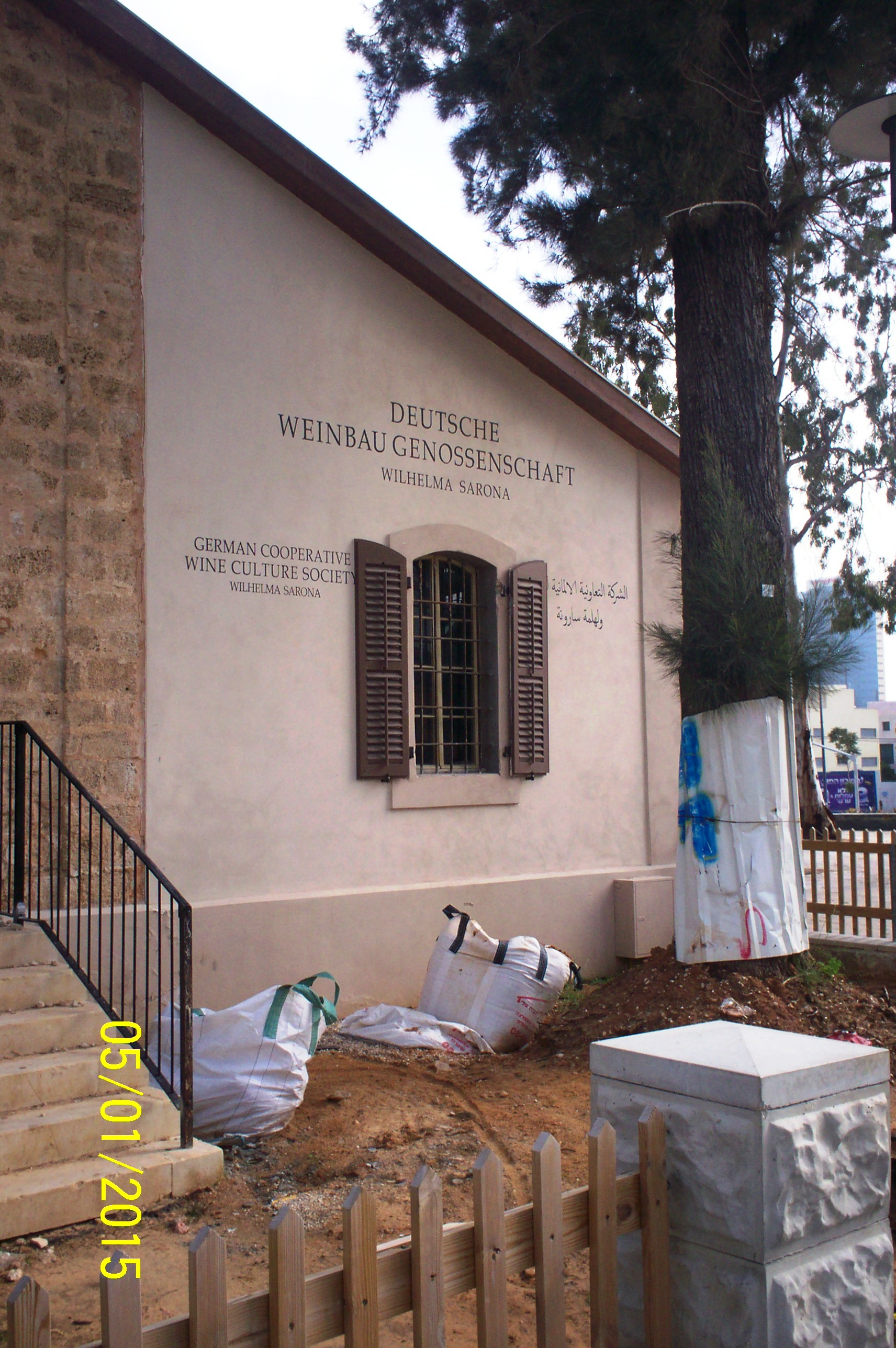 Sarona, former bigwinery of the Vintners' Cooperative of Sarona and Wilhelma